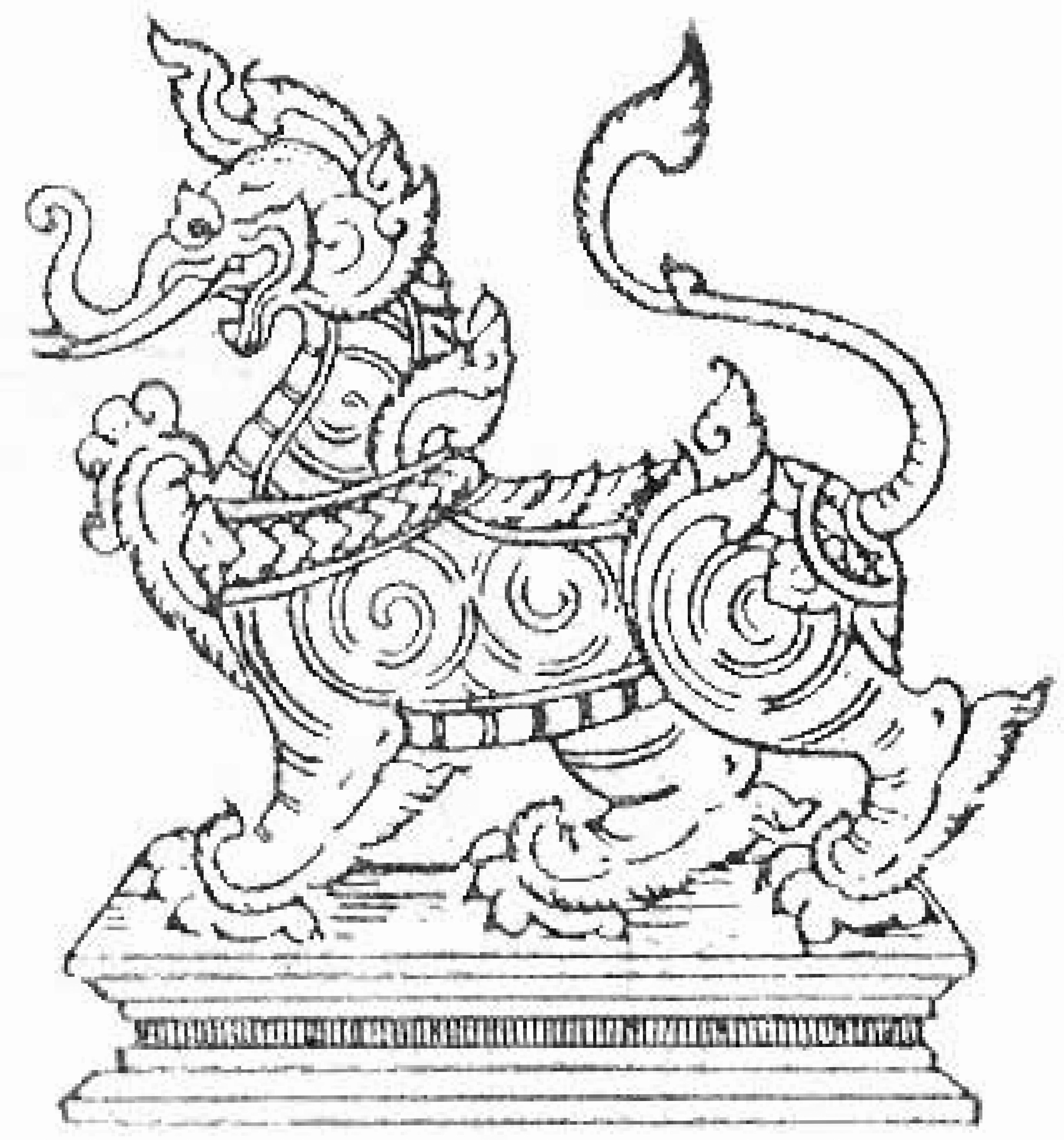 The Seal of the Gajasiha (Elephant-Headed Lion), see detailed information in The Royal Emblems and the Positional Seals by Phraya Anumanratchathon (Yong Sathiankoset).